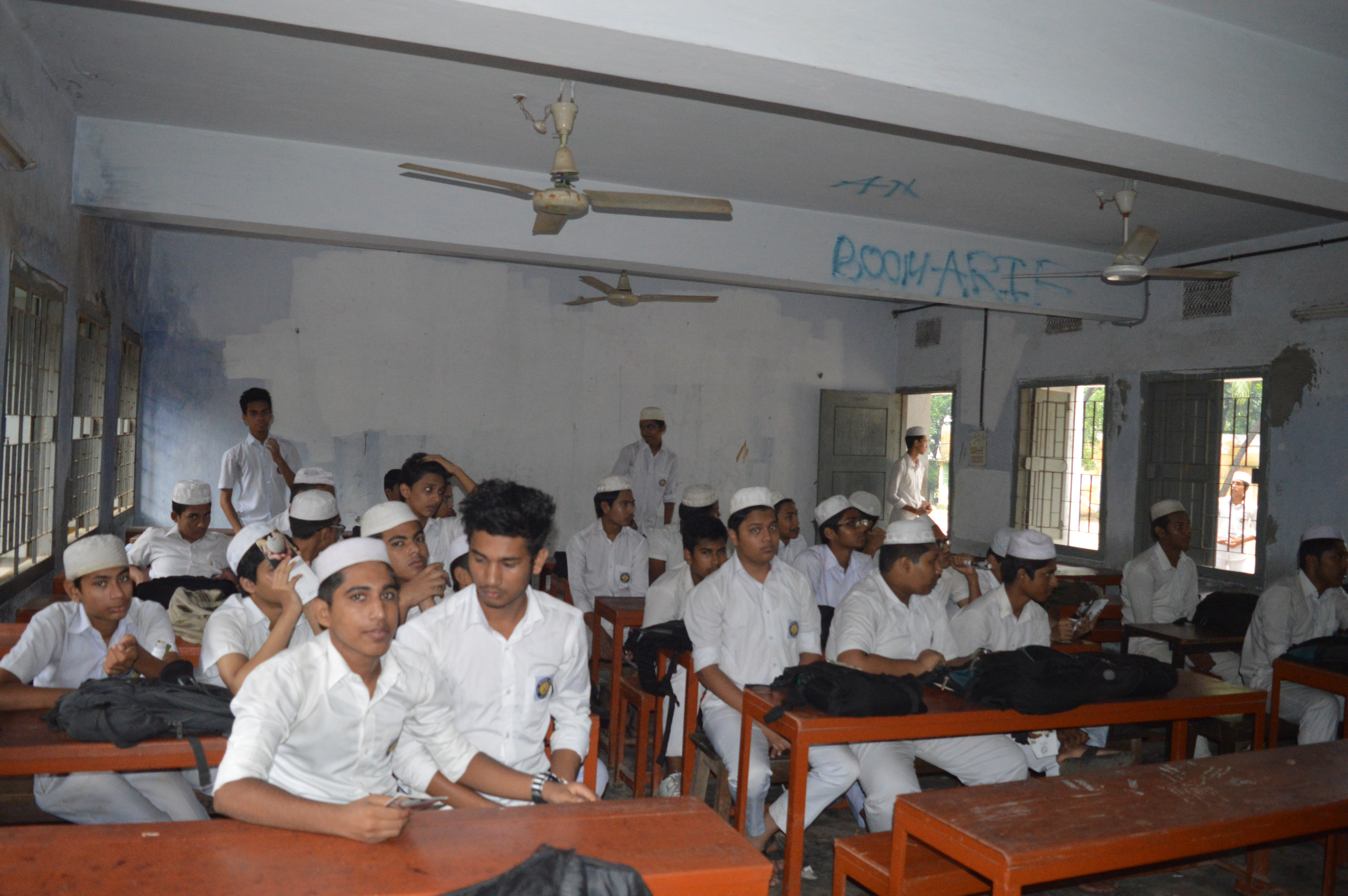 Bangla Wikipedia School Program, Government Muslim High School